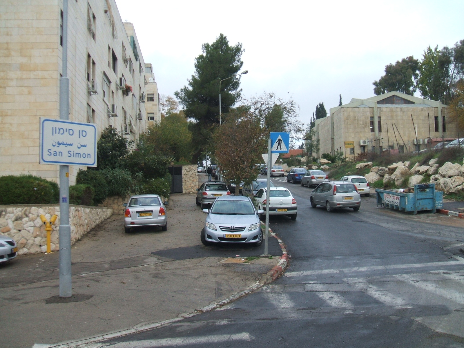 Ben Baba street in Jerusalem רח' בן בבא בשכונת סן סימון בירושלים